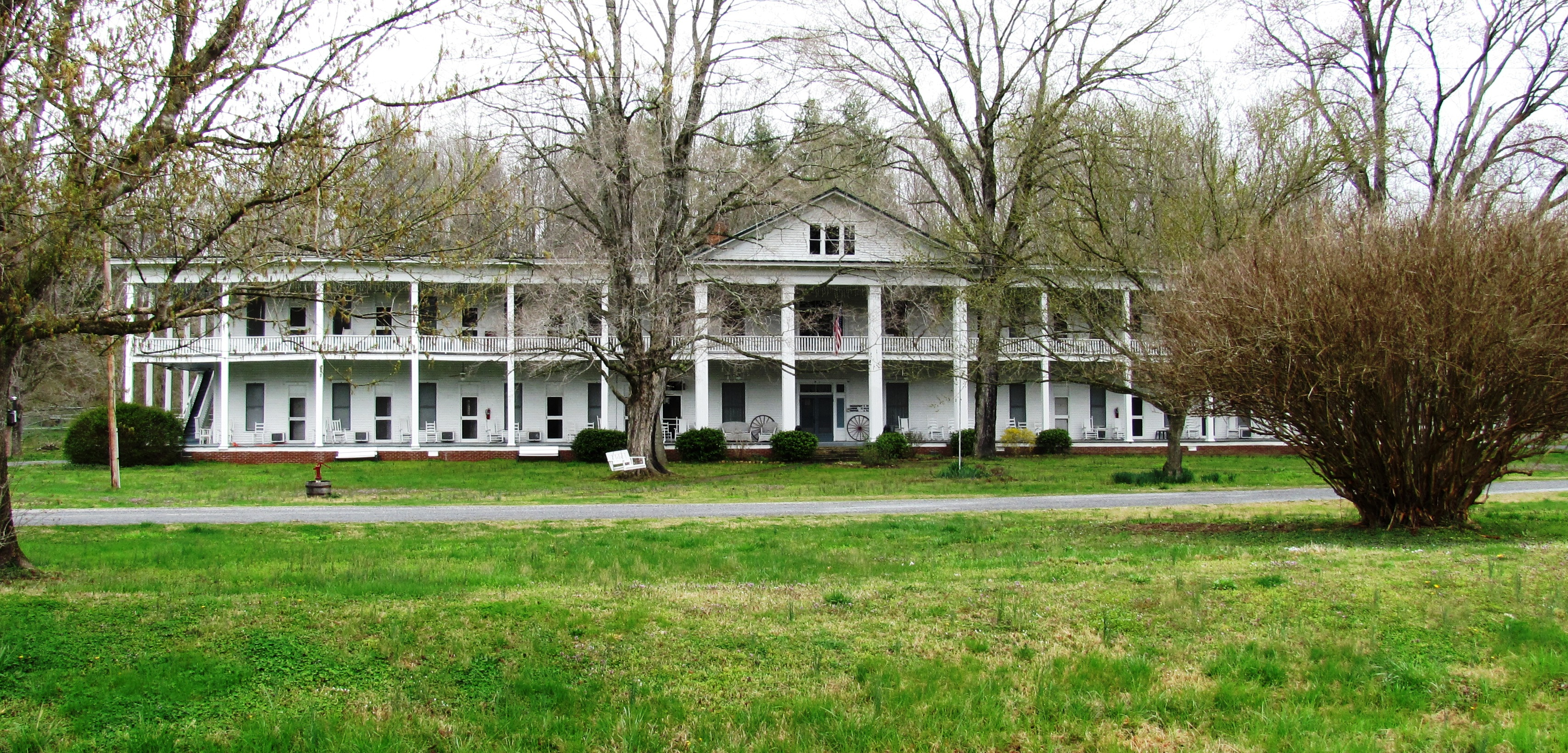 The NRHP-listed Donoho Hotel in Red Boiling Springs, Tennessee, USA.